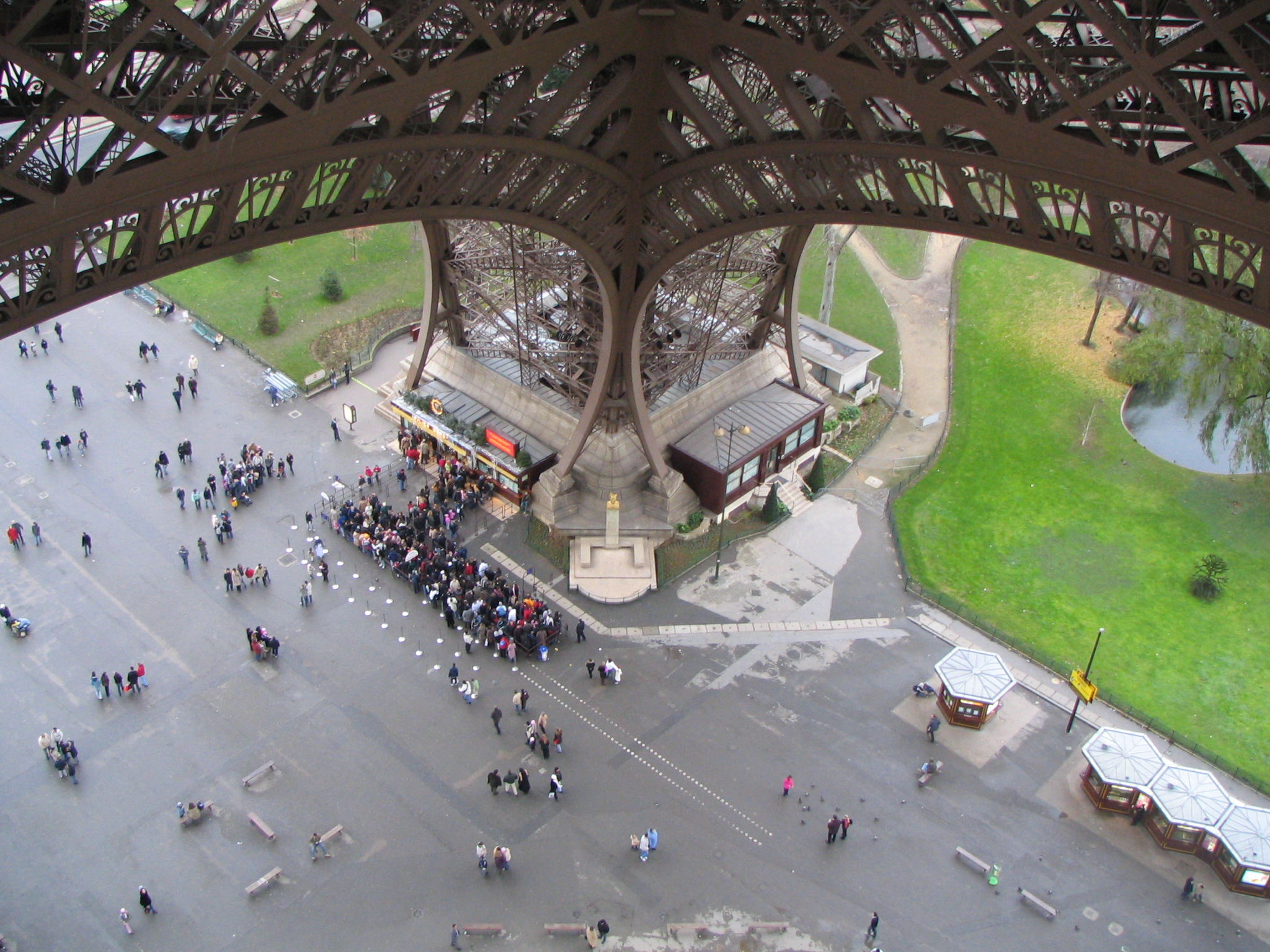 View of one of the pillars from the first floor of the Eiffel Tower, Paris